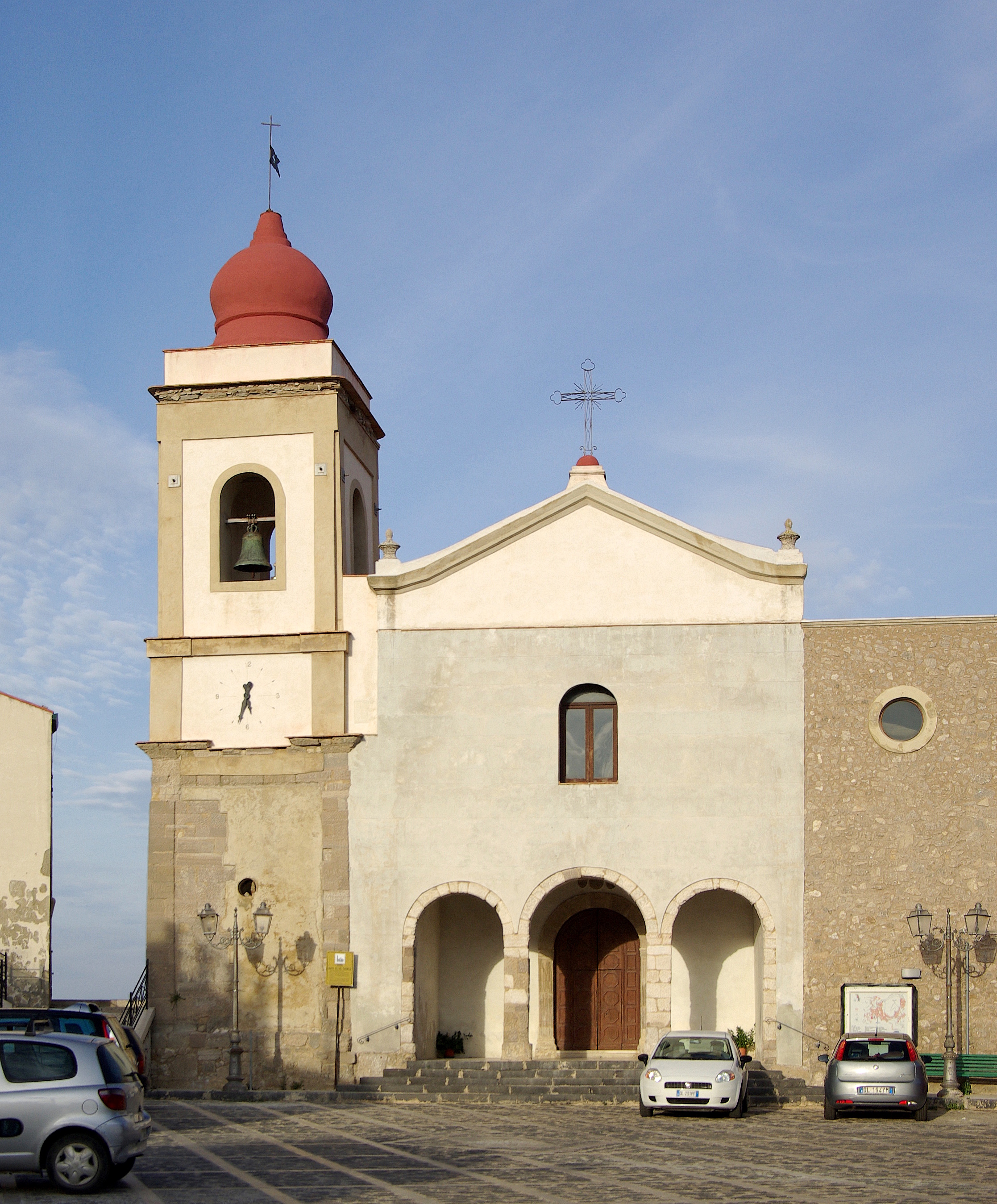 Italy, Sicily, Sutera, Maria SS. del Carmelo